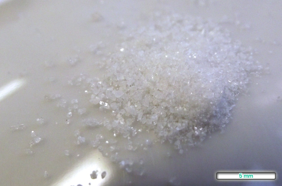 Photo of Paracetamol, pure